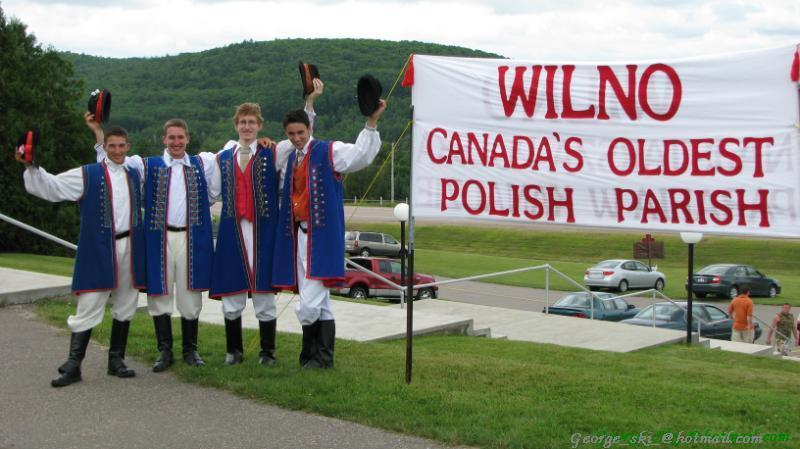 Folk Dancers re-enacting orginal settlers at the 150th anniversary celebrations 2008, of the establishment of Wilno Ontario Canada